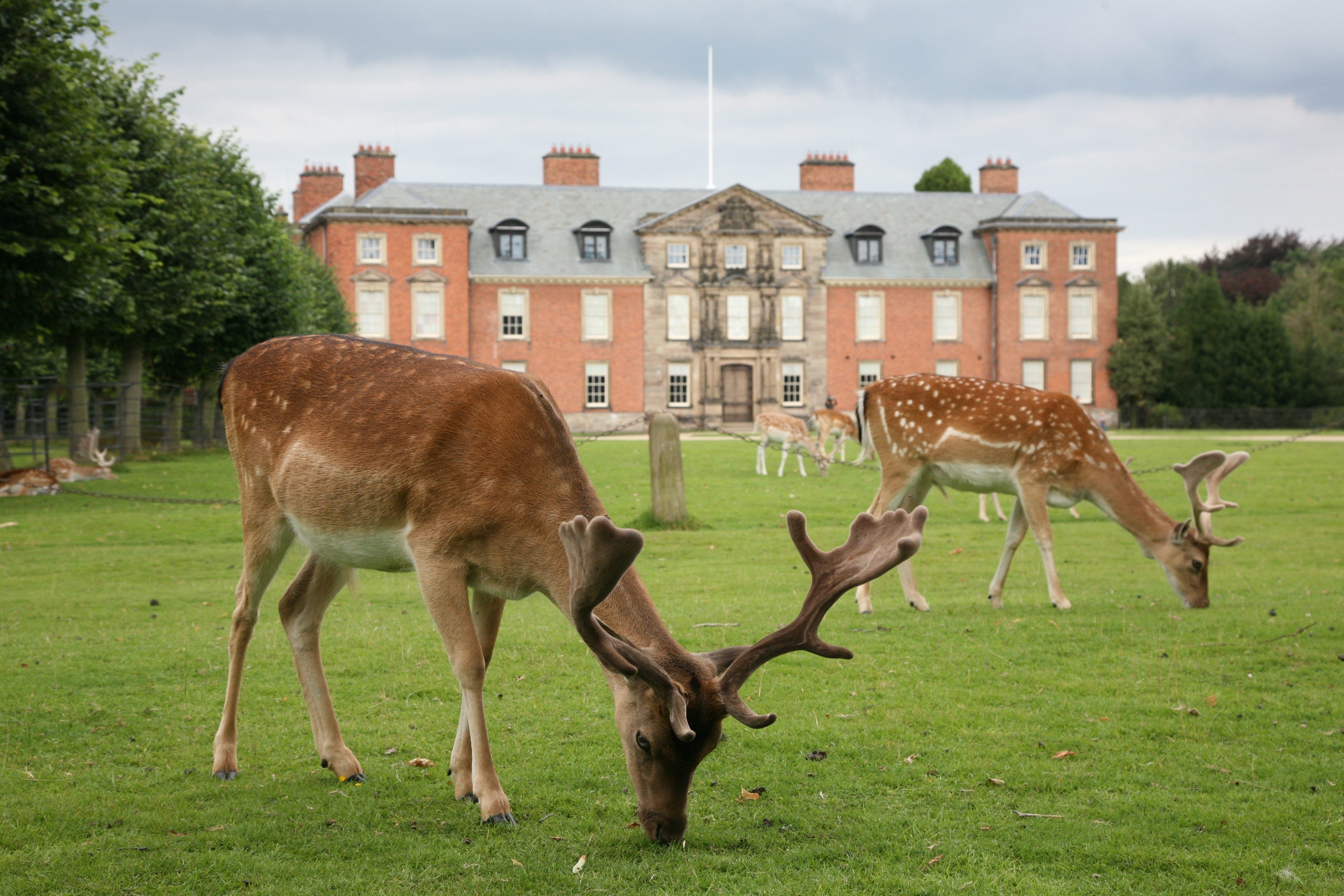 Fallow deer, Dama dama, on pasture at Dunham Massey Hall, Greater Manchester